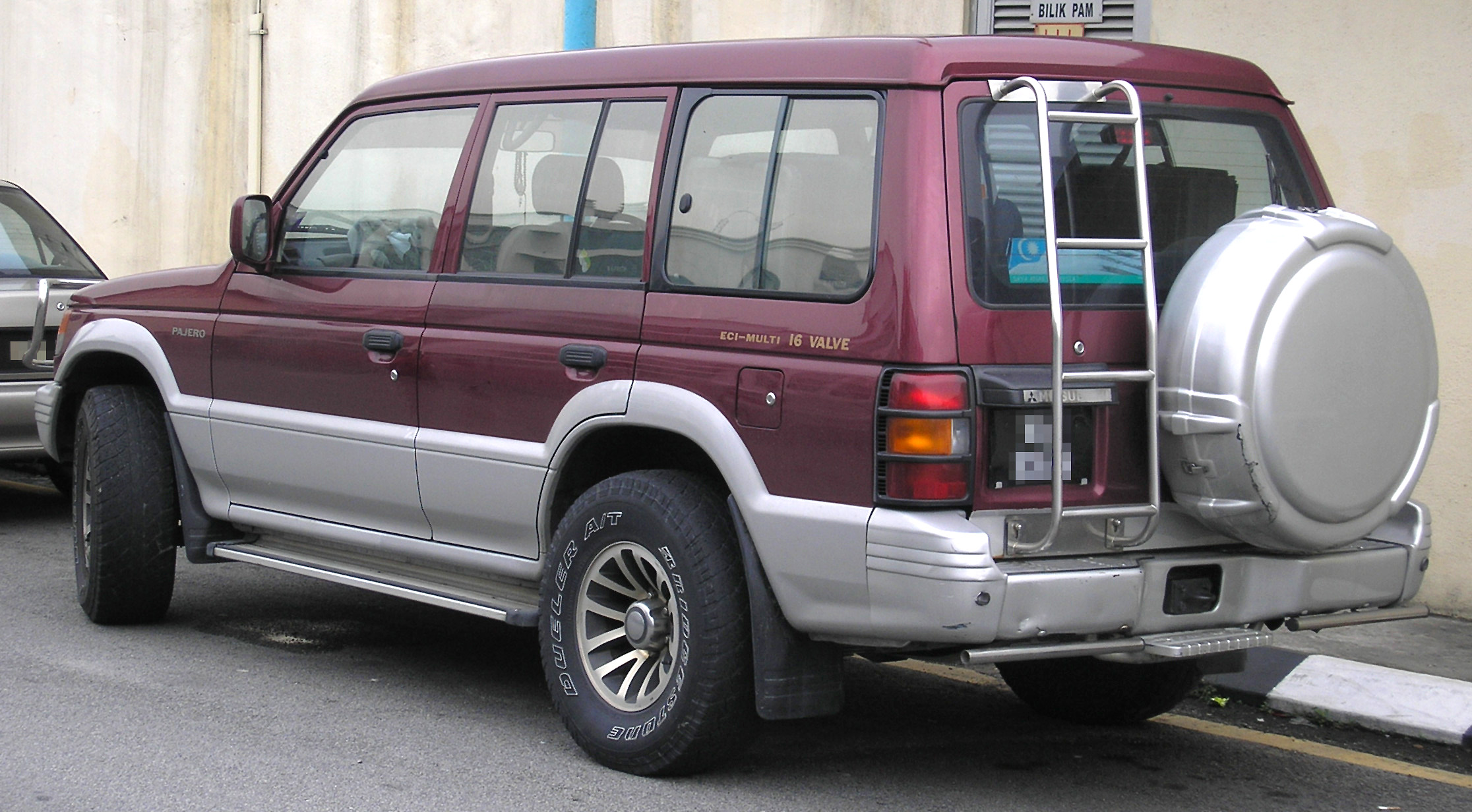 Rear quarter view of a second generation Mitsubishi Pajero, in Serdang, Selangor, Malaysia.